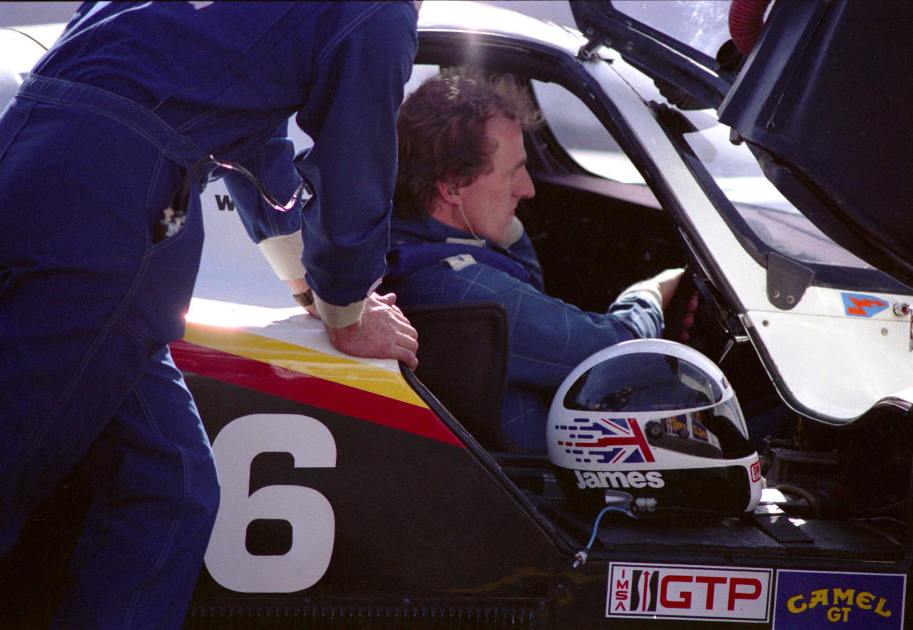 James Weaver (racing driver) at the IMSA Del Mar Grand Prix - October 1990